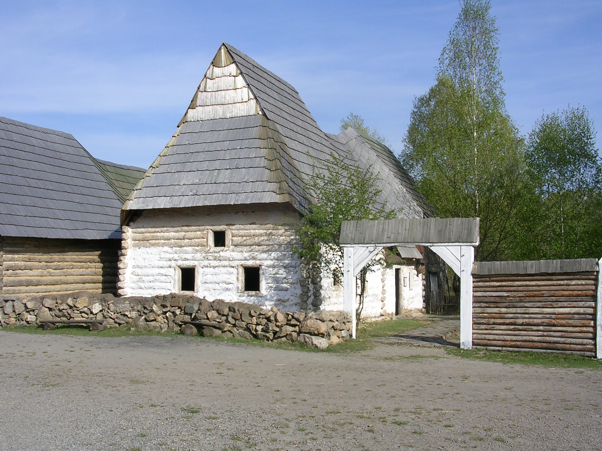 Open air museum Řepora, Prague, the Czech Republic